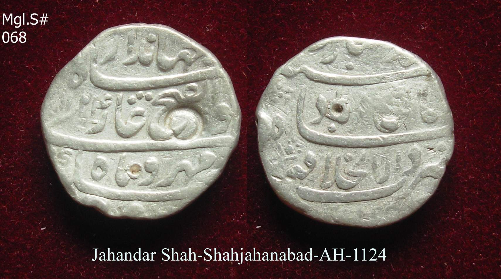 Silver rupee, Jahandar Shah from my cabinet